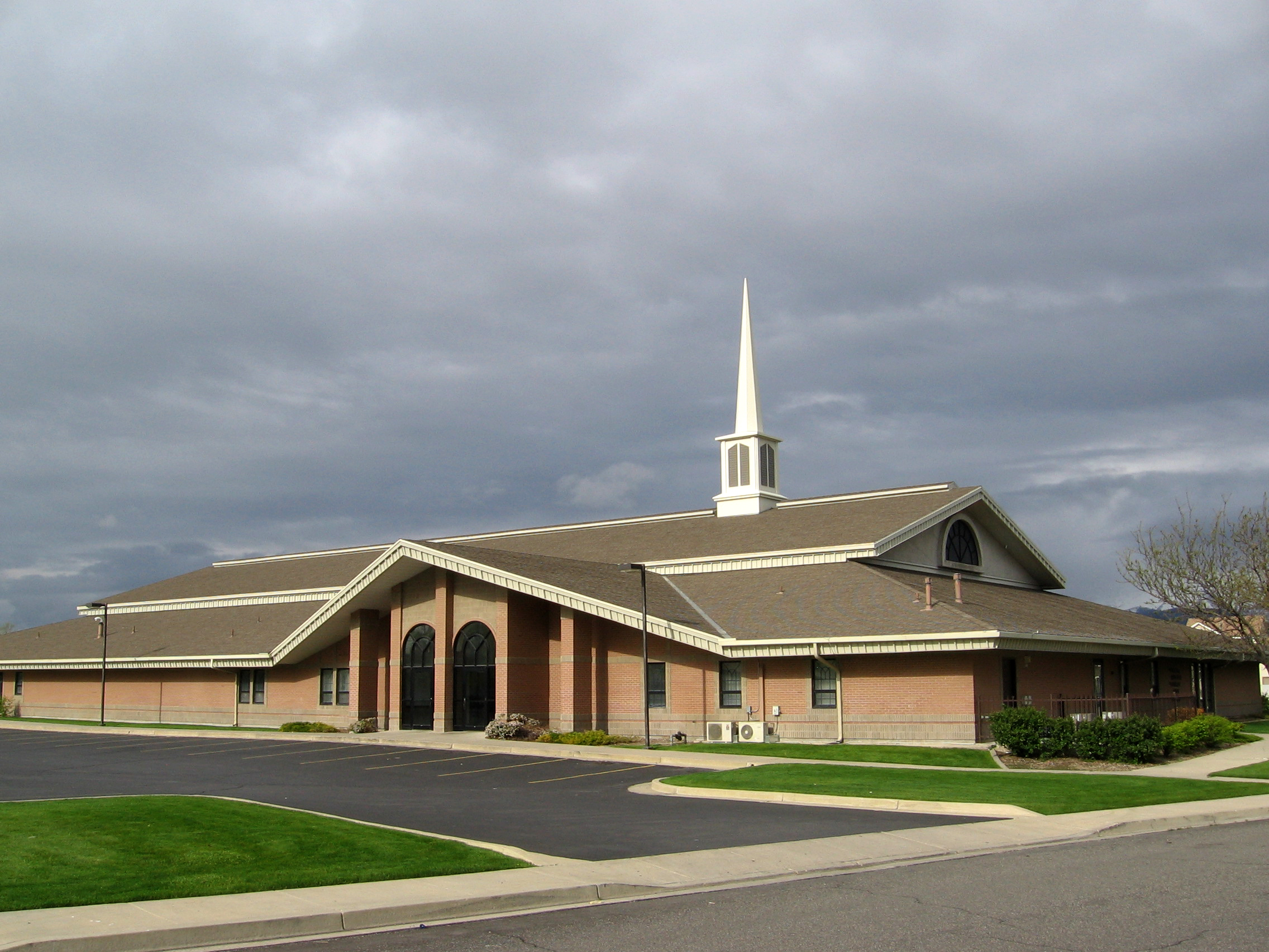 A stake center of The Church of Jesus Christ of Latter-day Saints (LDS). Located in West Valley City, Utah, USA, this architectural style is typical of those built in the 1990's.